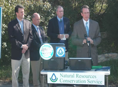 From the Left, Ben Cline, State Delegate, Todd Jones, mayor of Buena Vista, Scott Dadson, City manager.